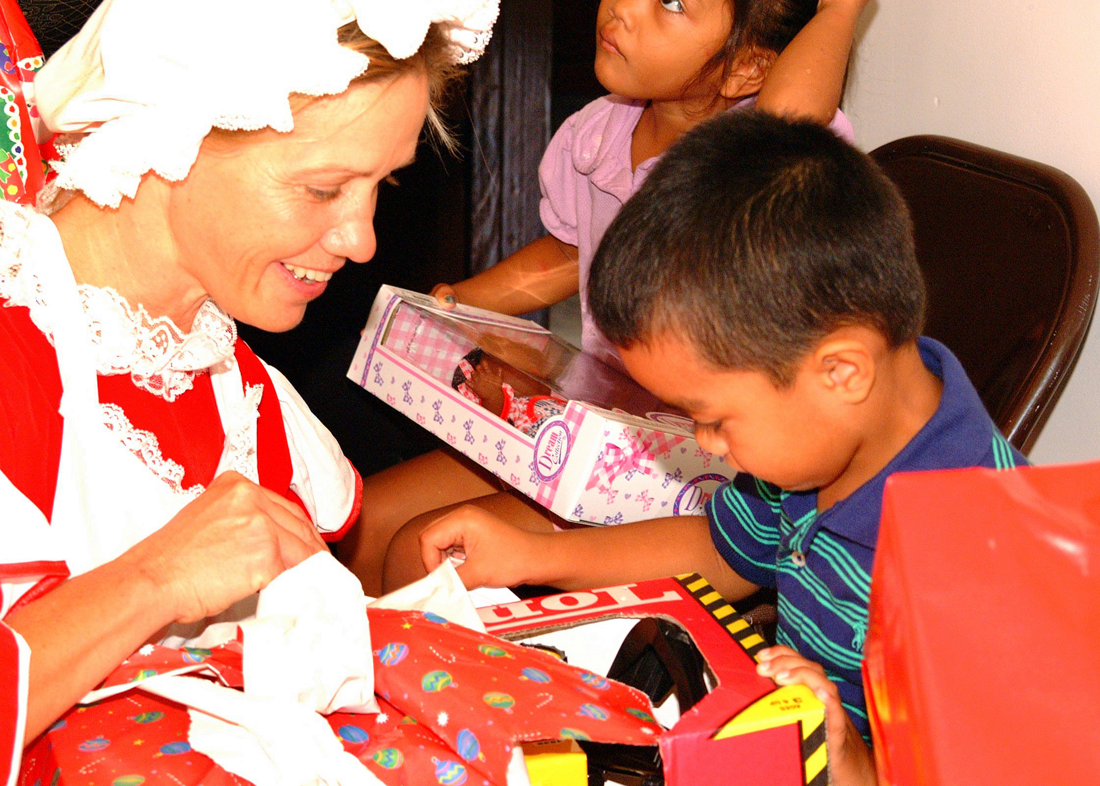 Chalan Pago-Ordot Mayor's Office, Guam (Dec. 27, 2002) -- U.S. Navy Lt. Lisa Braun of U.S. Naval Hospital Guam, hands a toy to a Chalan Pago-Ordot child displaced following Super Typhoon Pongsona during a Christmas holiday event held for the children. Chalan Pago-Ordot is a village on the island of Guam. The word "chalan" that makes up the first part of this village name means road, street, and in olden days, paths or trails. The word "pagu" makes up the second part of this village name and is the wild hibiscus tree that grows in abundance in this area. The word "ordot" refers to the other village that makes up this district. U.S. Navy photo by Journalist 1st Class Melody D. Kight. (RELEASED)